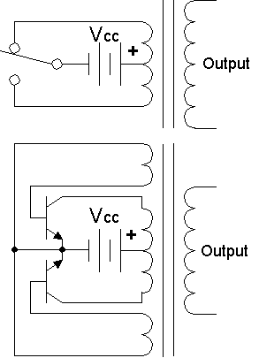 simple inverter configuration